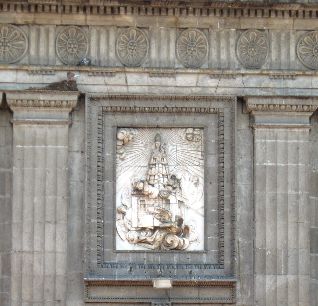 Relief carving of Our Lady of Loreto in the main portal of Nuestra Señora de Loreto Church in the historic center of Mexico City